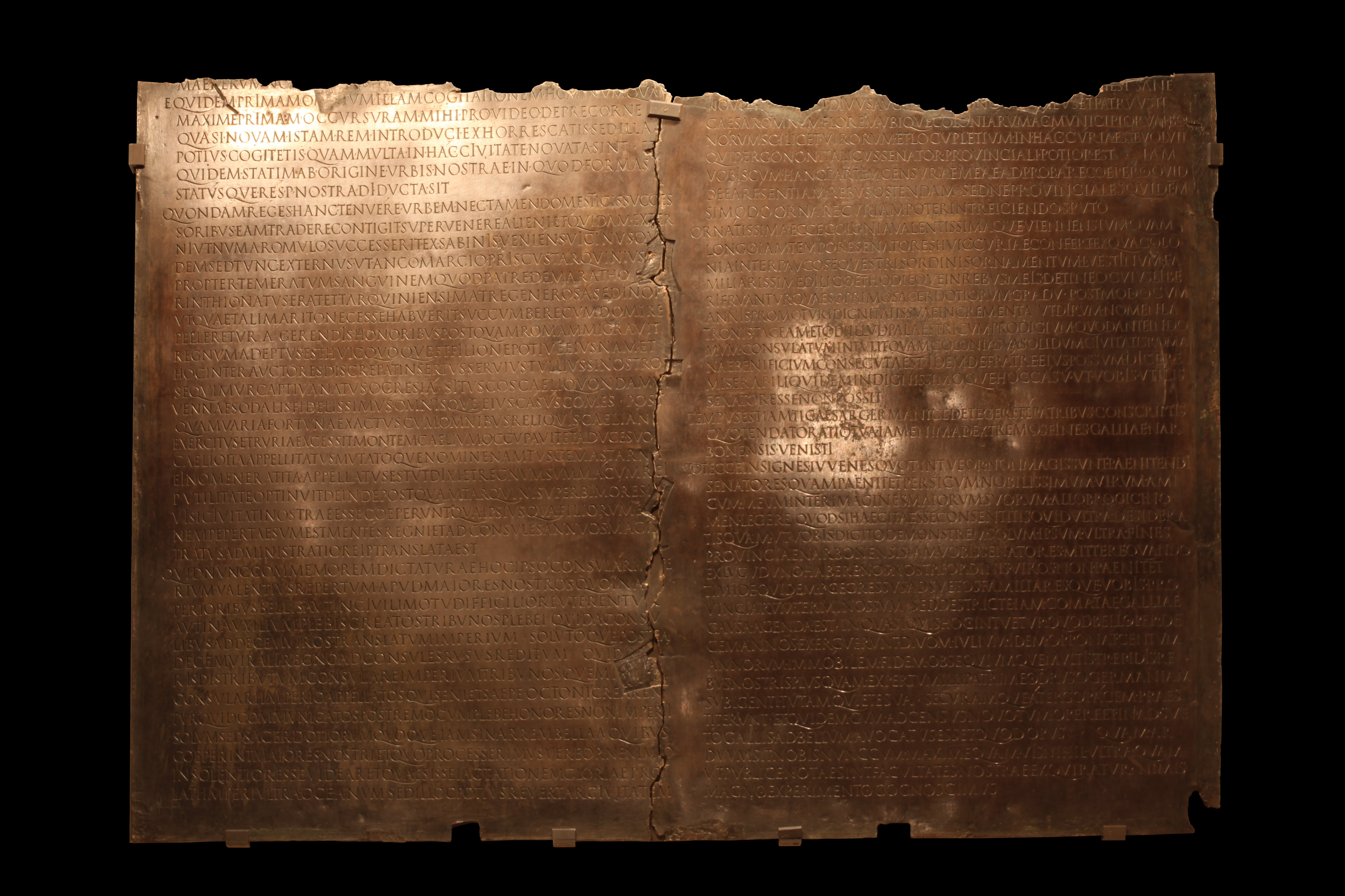 Claudian table, copy of the speech delivered by Claudius to the Roman Senate